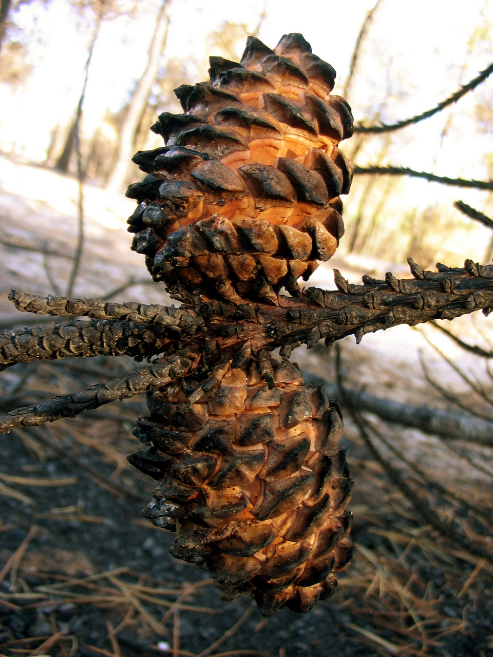 Fire-climax cones of Pinus pinaster, opening after being scorched on the outside by a forest fire. The seeds are protected by the thick scales, to be released later to recolonise the burnt ground.